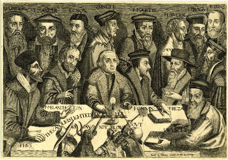 The candle is lighted, we cannot blow out, Protestant reformers at a table, a cardinal, devil, Pope and monk trying to blow out a candle. Martin Luther sits in the centre, with Melanchthon and Hus on his right hand, Calvin and Beza on his left.